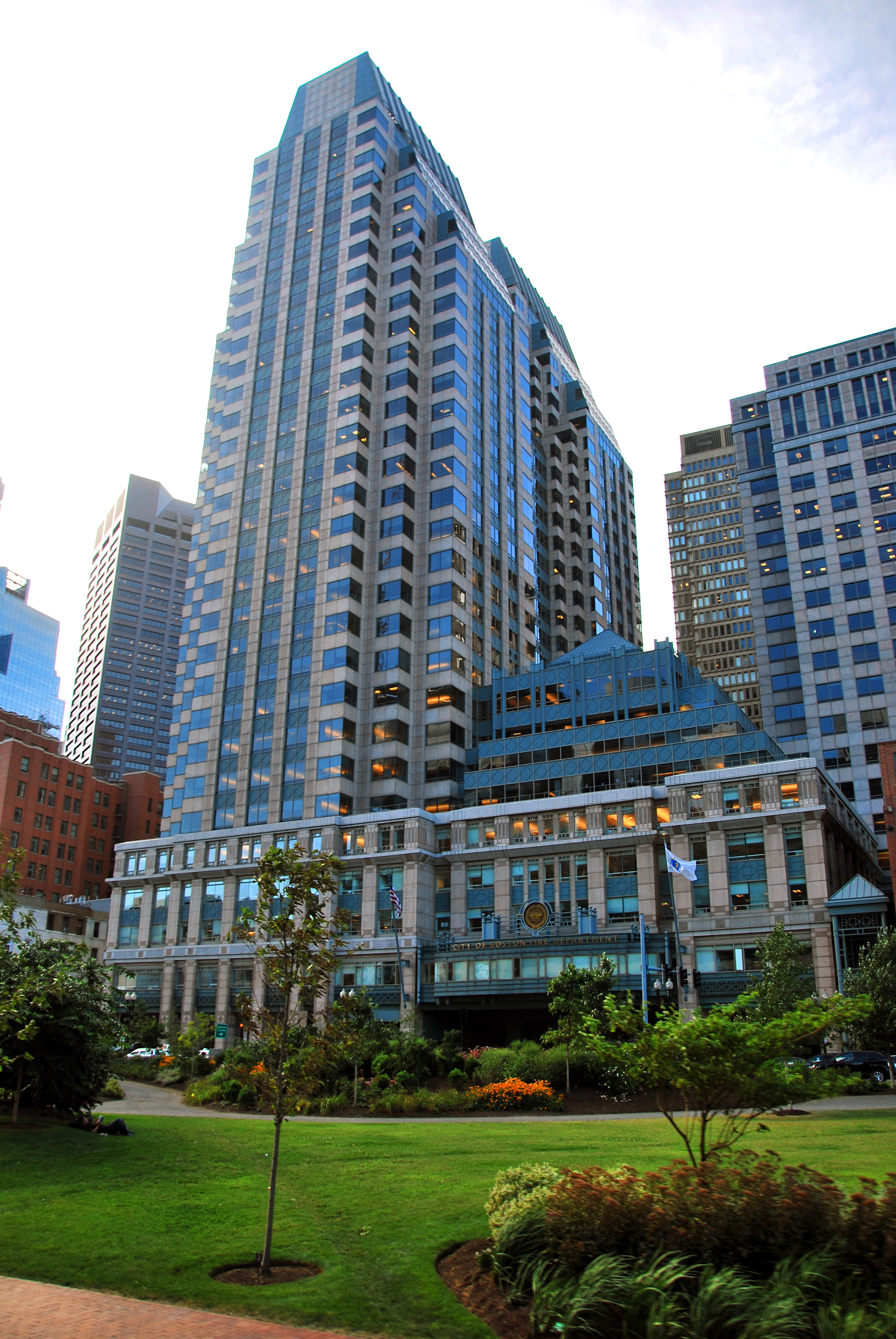 City of Boston Fire Department, 125 High Street